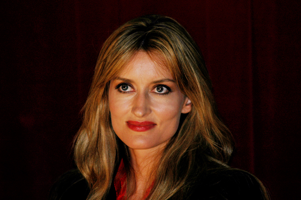 Natascha McElhone, Q&A session and screening of "Californication" for the L.A. Times Envelope series at the Mann Chinese 6 theater, 2 June 2009.